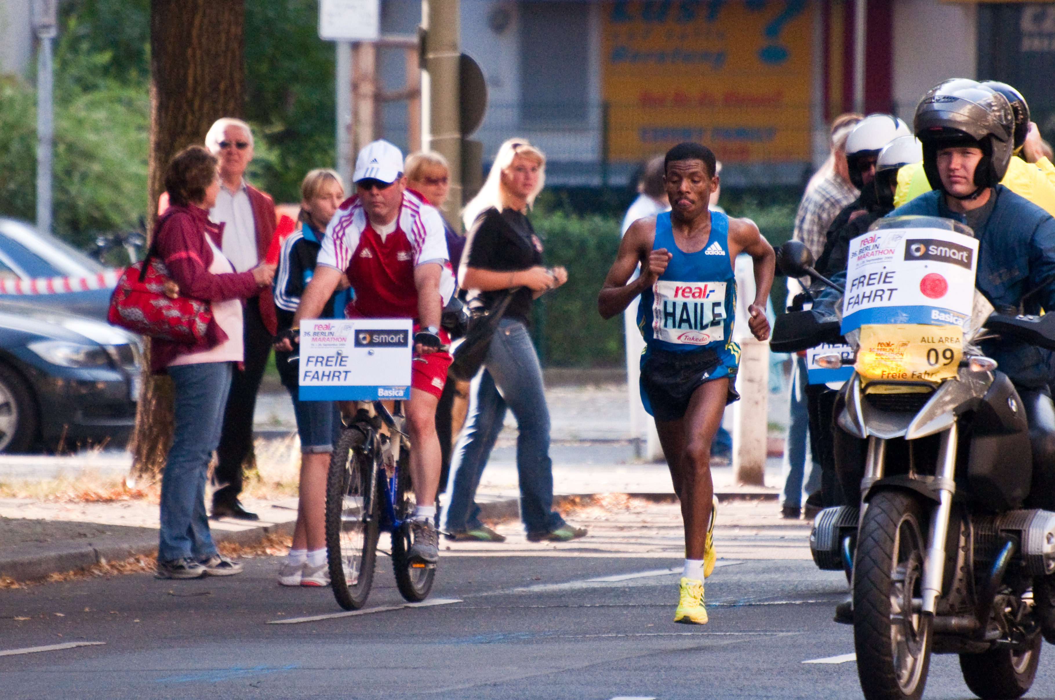 Haile Gebrselassie (ETH) on his way to his fourth straight victory in the Berlin Marathon. Taken while on holiday in Berlin for a long weekend. Update: I'm very proud to say that this picture has been published in the second issue of Addis Life Magazine in an article by Dominique Amare entitled The Ethiopian side of Berlin! *YAY!*